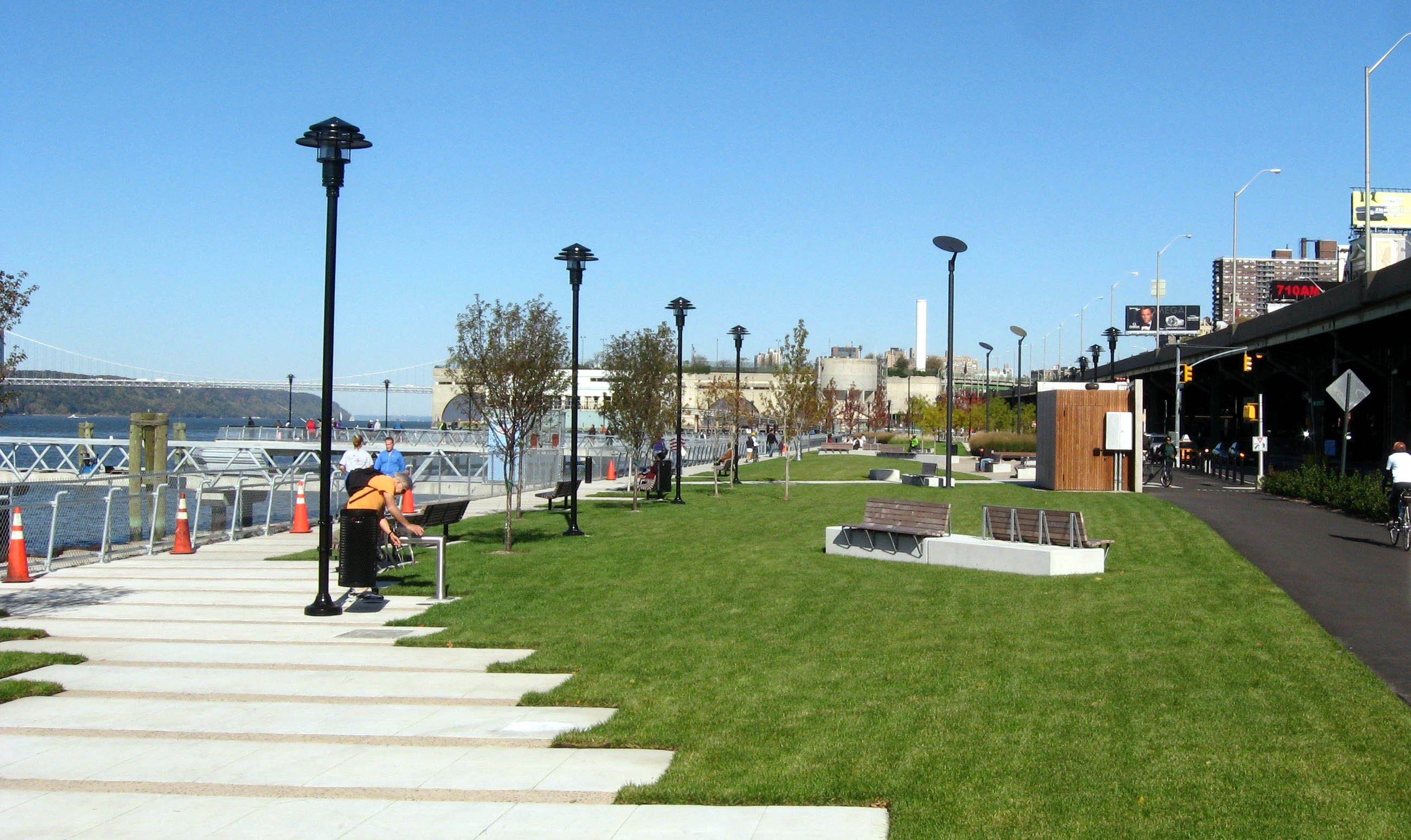 Looking north at Manhattanville, Manhattan#West Harlem Piers on a sunny midday.